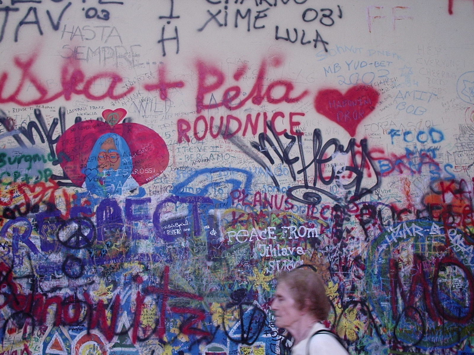 The Lennon Wall in Prague was a focus for anti-Communist sentiment during the 1980s in Prague. Starting as a single painting of a mock grave for John Lennon after his death in 1980, the Wall became a location for art and writing opposing the state. Police would regularly whitewash over the graffiti, only for new graffiti to quickly be put up in its place. Today the wall is mostly a combination of love messages, exhortations to peace and running football disputes, though the image of John Lennon remains a constant.